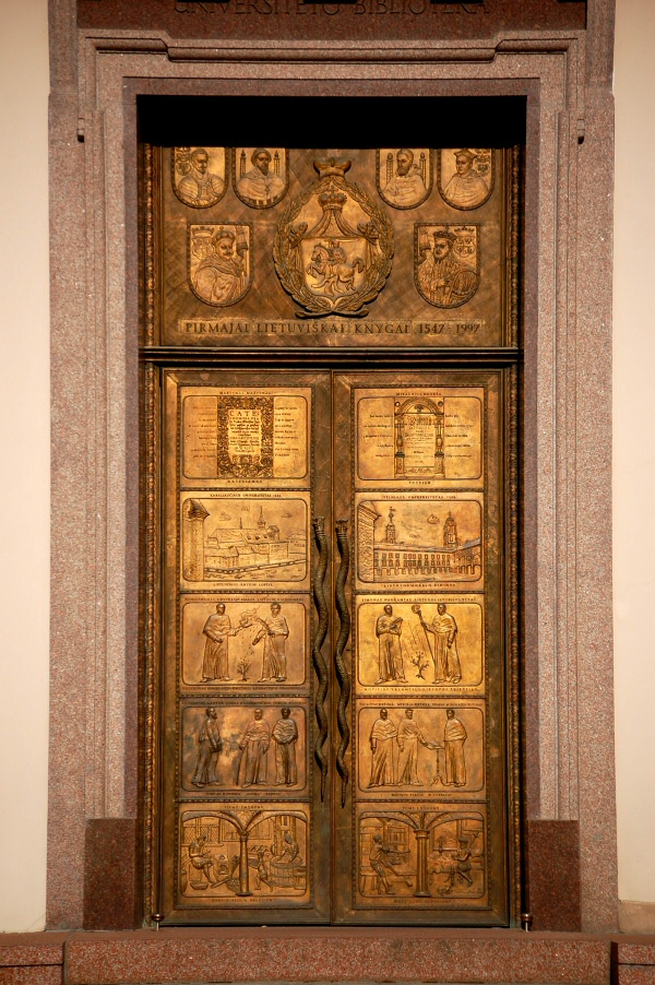 Bronze doors of Vilnius University library, Lithuania